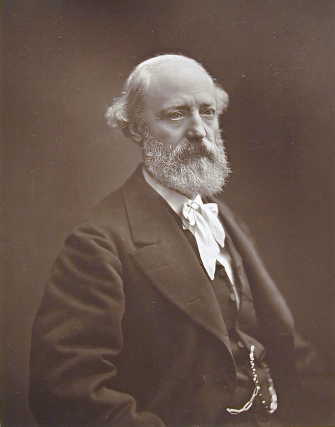 France, 1876-1884 Book: Galerie Contemporaine Volume, number, page: Volume 1 Photographs Woodburytype The Audrey and Sydney Irmas Collection (AC1992.229.16) Photography